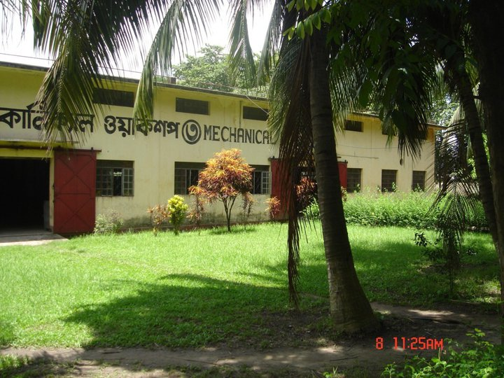 Mechanical Workshop